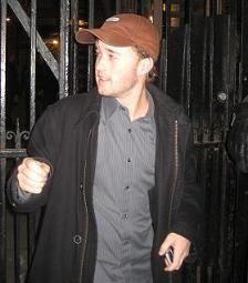 Taken outside the Broadway production of American Buffalo. Taken November 21, 2008